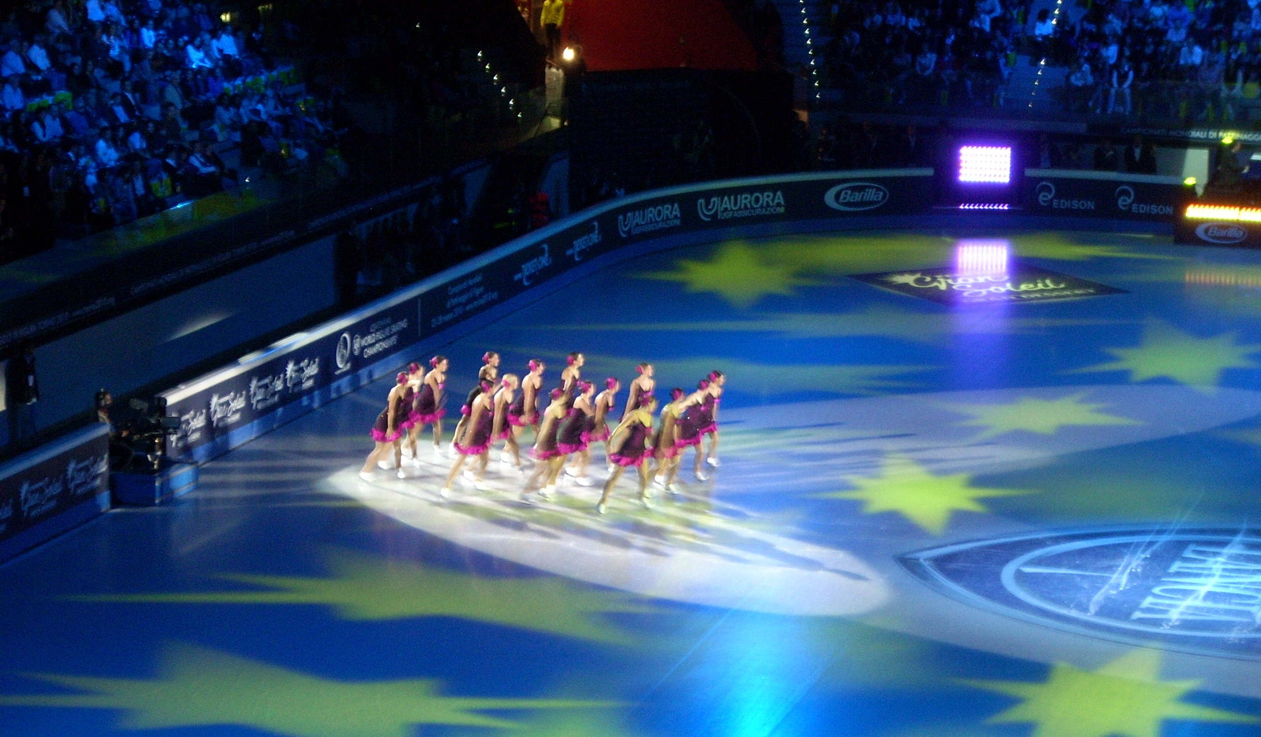 The synchronized skating "Hot Shivers" performing at the "Gran Galà del Ghiaccio" held in Turin on 10/10/2009.